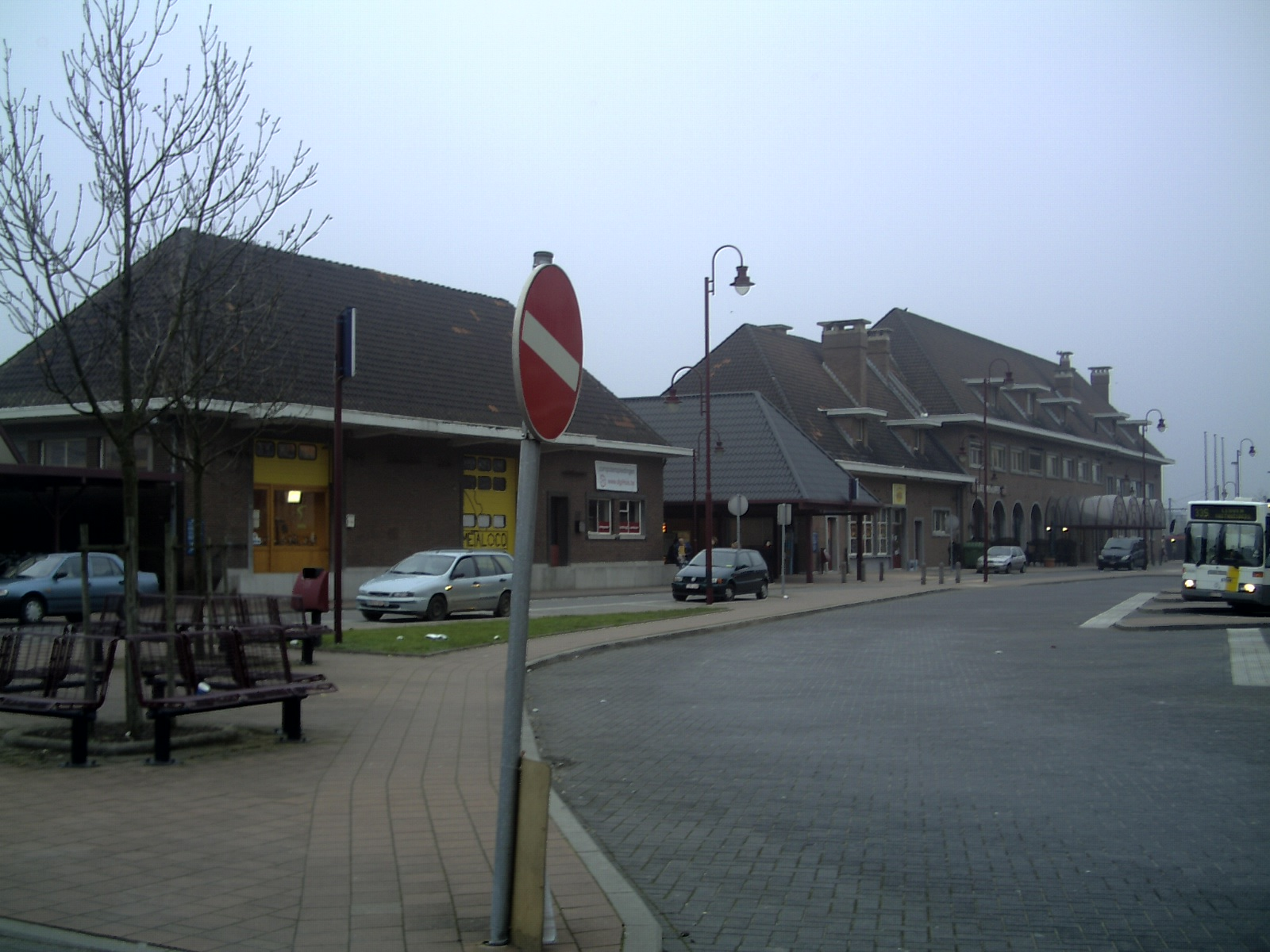 The front side of trainstation Aarschot (Belgium)